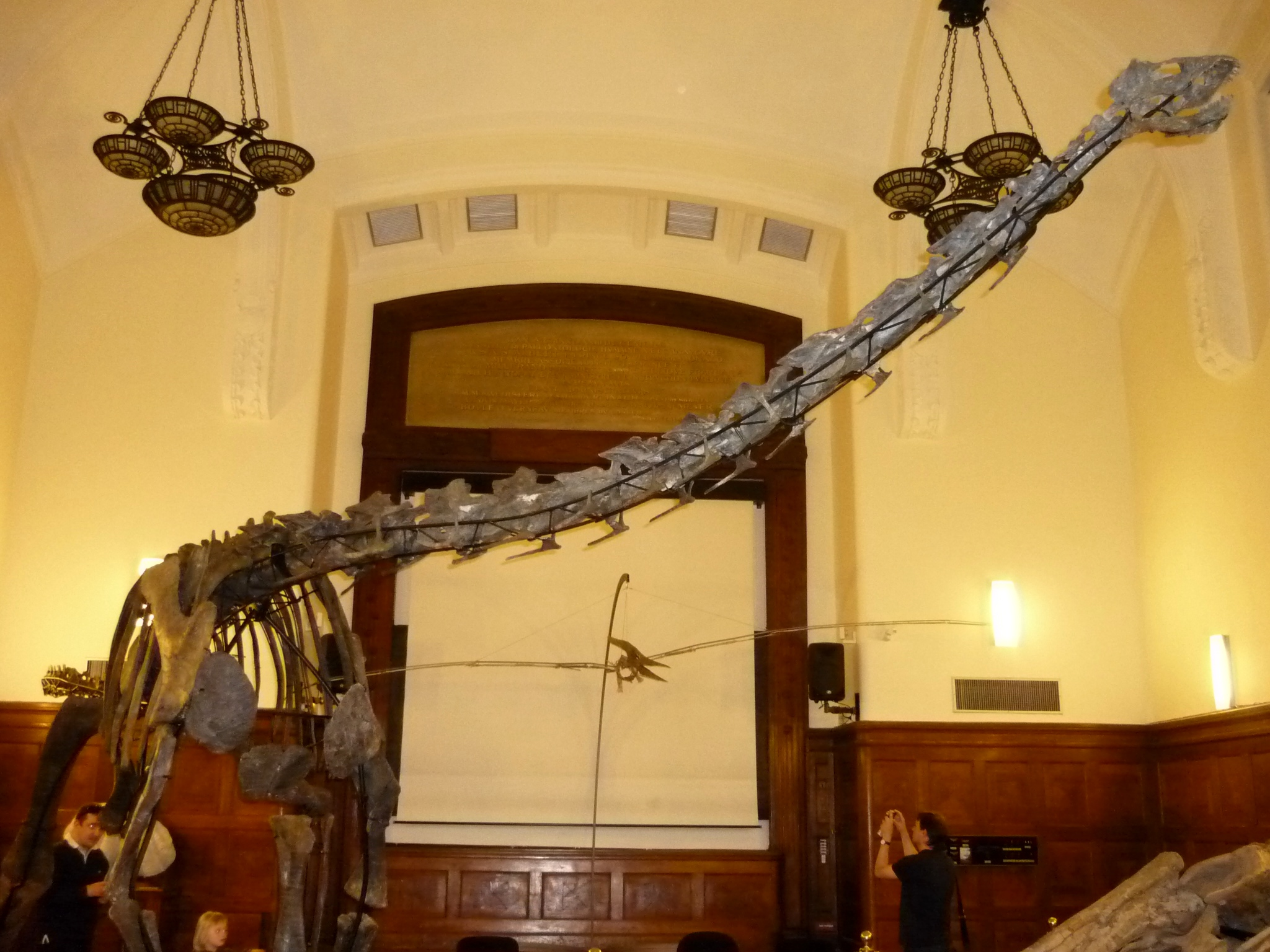 Suuwassea emiliae, Institut de paléontologie humaine, Paris, France